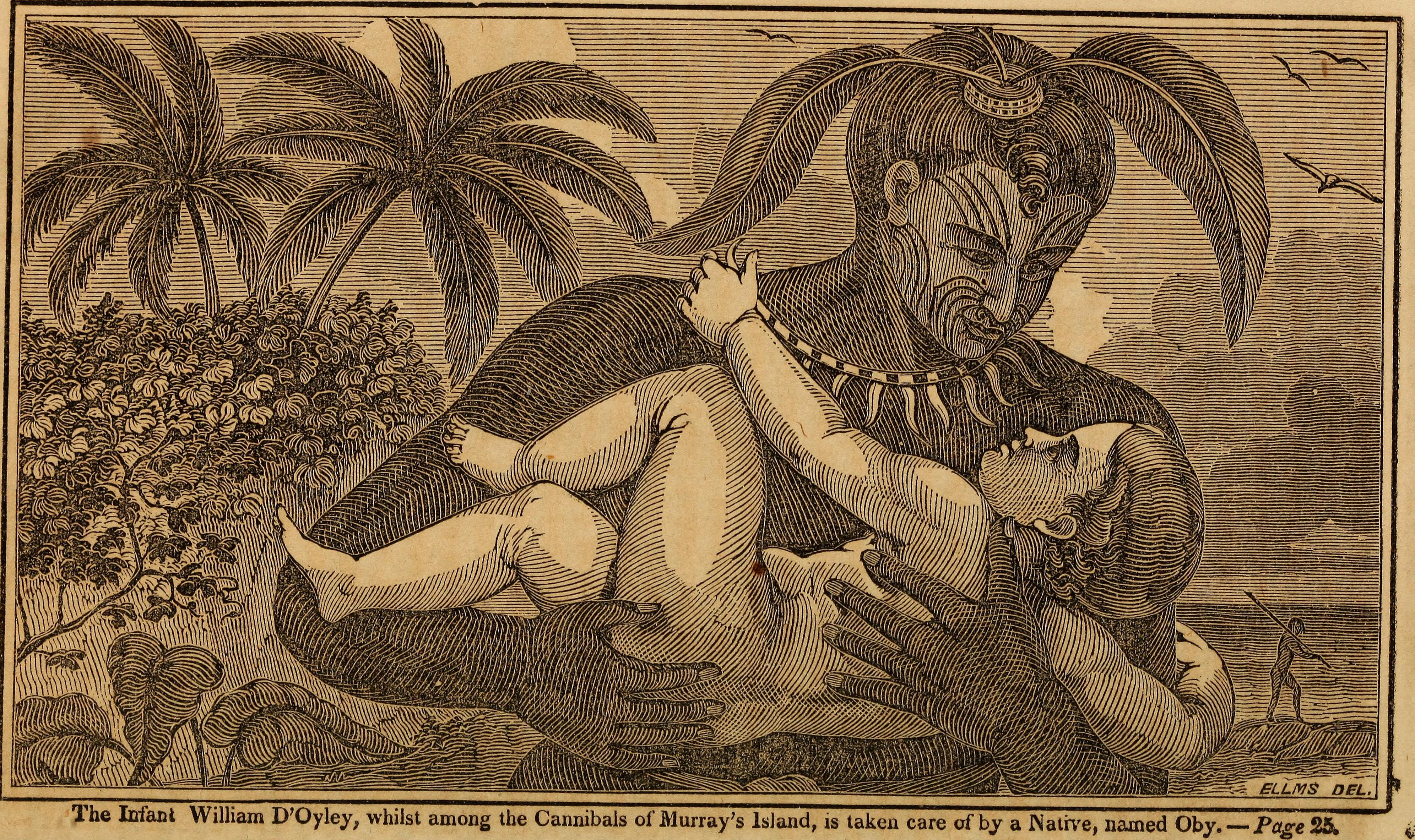 Title: The tragedy of the seas; or, Sorrow on the ocean, lake, and river, from shipwreck, plague, fire and famine Year: 1848 (1840s) Authors: Ellms, Charles Subjects: Shipwrecks Publisher: Philadelphia, W. A. Leary: Boston, W. J. Reynolds & co. Text Appearing Before Image: ' Text Appearing After Image: DUPPAR BUYS IRELAND AND THE INFANT. 25 sufficient water for their consumption ; and, as Ireland saysthey used a great deal, it must, at least, have yielded fifteenor twenty gallons a day, for the hole was always full. Upona voyage, the) carry their water in bamboo joints and cocoa-nut shells, like the Malays. After remaining here two months, the Indians separated.One party, taking Ireland and the infant DOyley with them,embarked in a canoe, and, after half a days sail, reachedanother islet to the northward, where they remained a dayand a night on the sandy beach ; and, the next morning,proceeded, and reached another island similar to Pullan,low and bushy, where they remained a fortnight. Theythen proceeded to the northward, calling, on their way, atdifferent islands, and remaining as long as they suppliedfood, until they reached one where they remained a month;and then they went on a visit to Darnleys Island, whichthey called Aroob, where, for the first time, Ireland says, hereceived